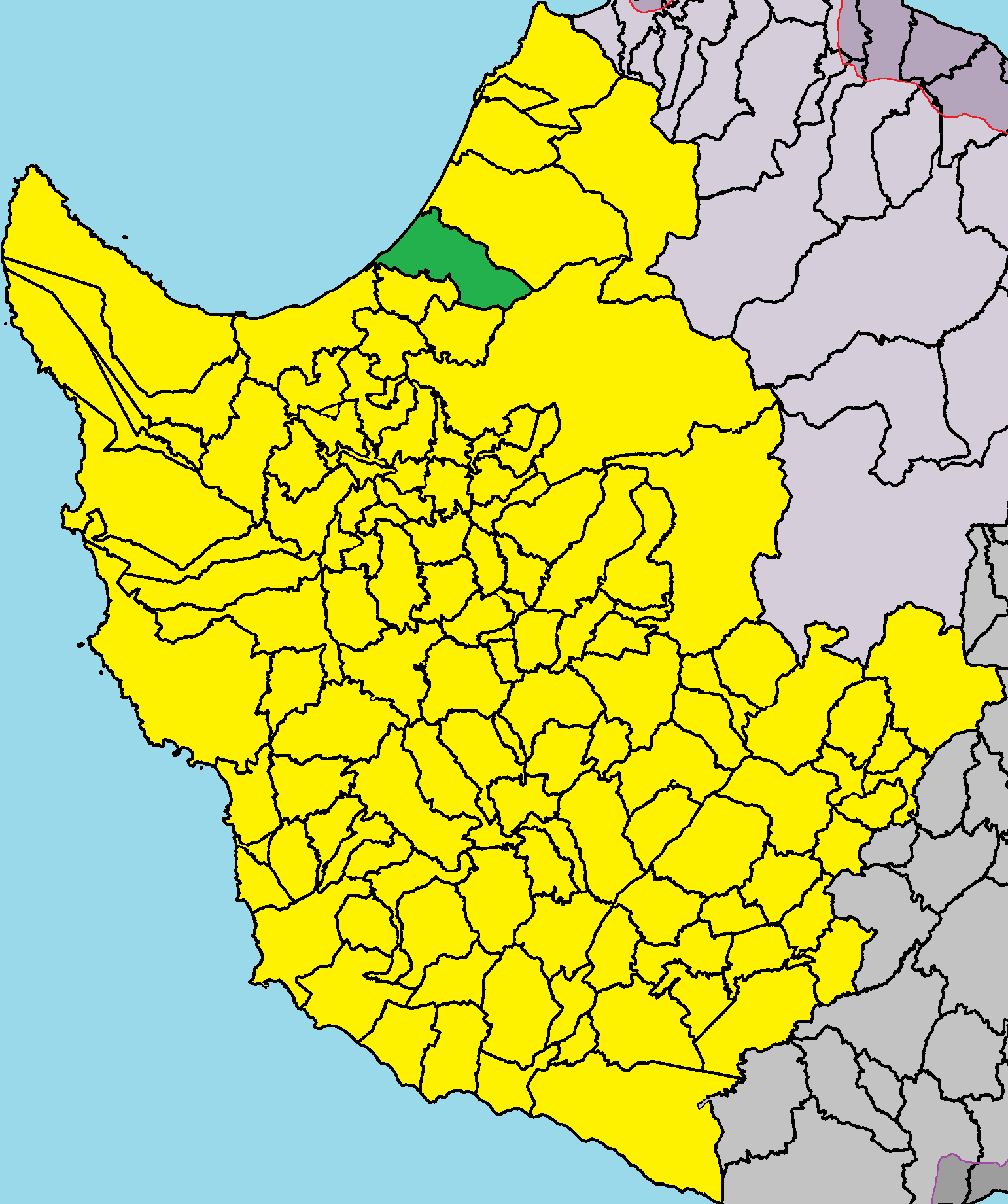 Argaka in Paphos District.